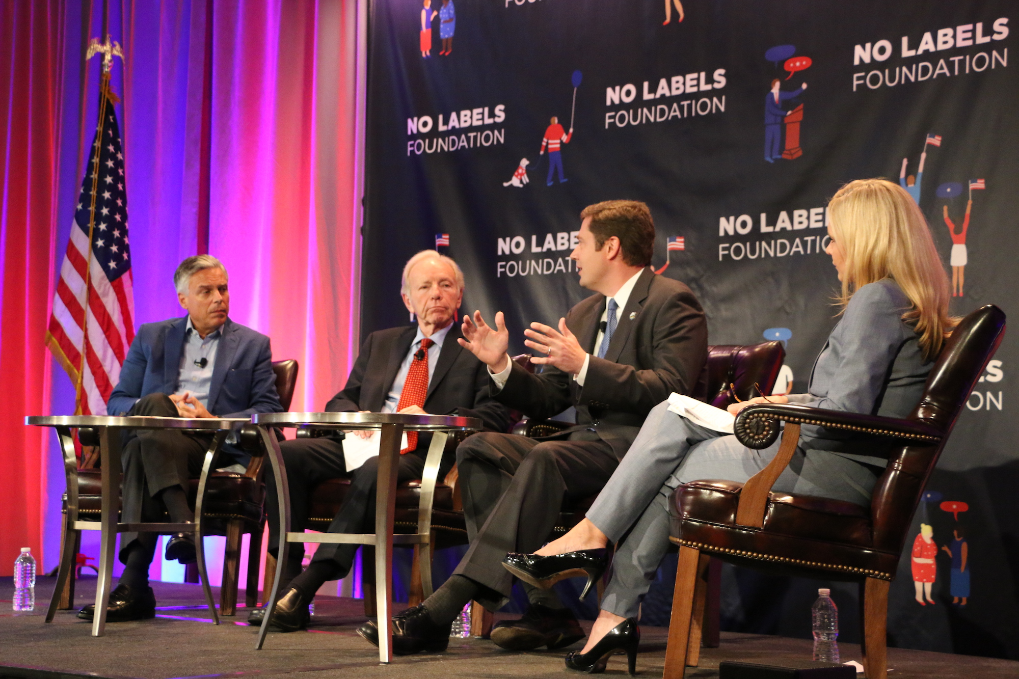 On October 6, The No Labels Foundation hosted the New Hampshire Governor's Forum, featuring Democratic candidate Colin Van Ostern and Republican candidate Chris Sununu. The two candidates engaged in a substantive discussion with over 500 New Hampshire voters, steered by No Labels Co-Chairs Gov. Jon Huntsman and Sen. Joe Lieberman.